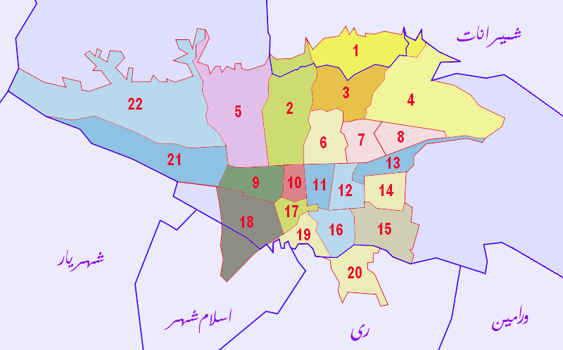 A map of Tehran which shows the 22 municipal regions of the city